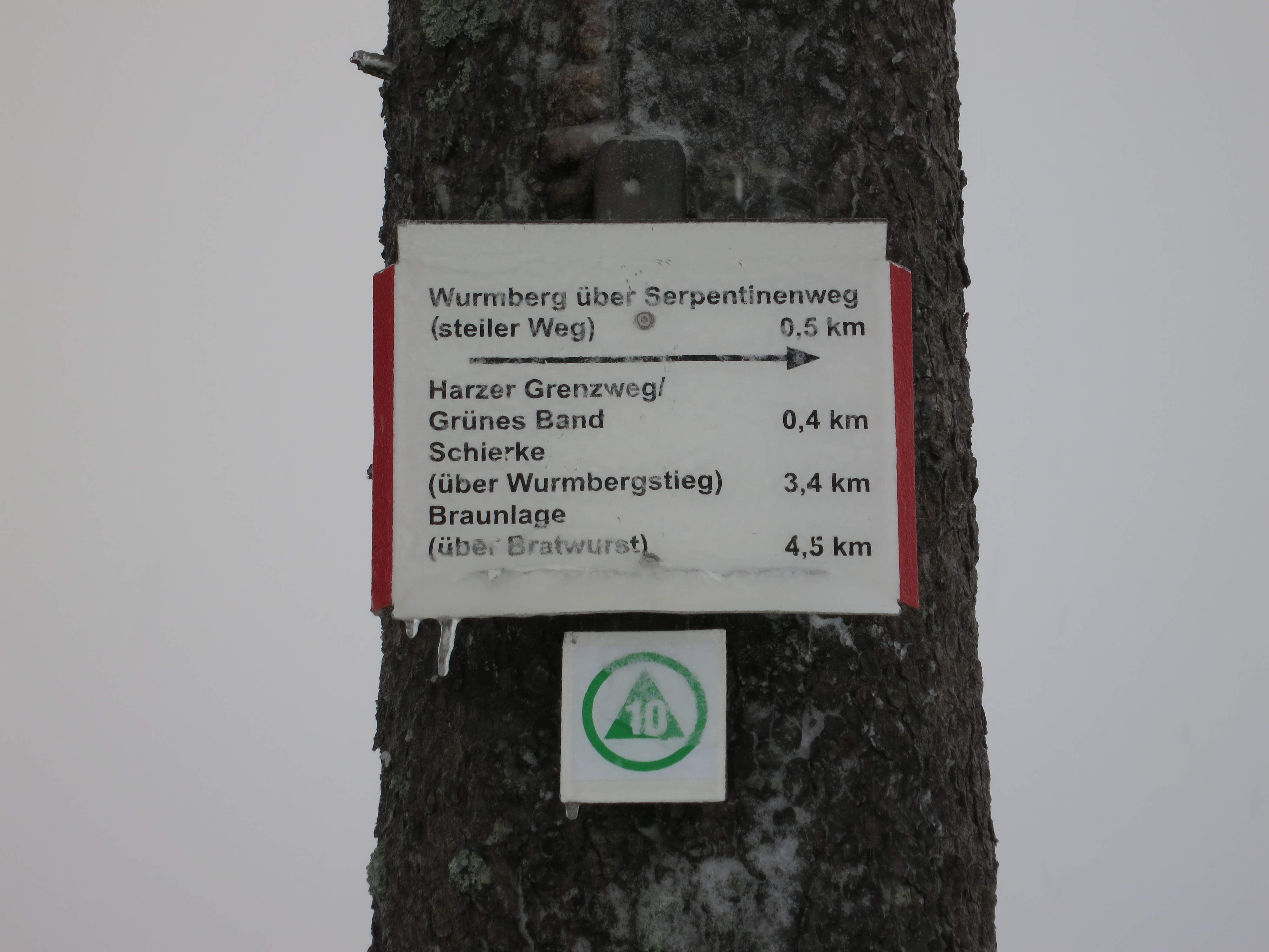 Hiking sign in Harz mountains